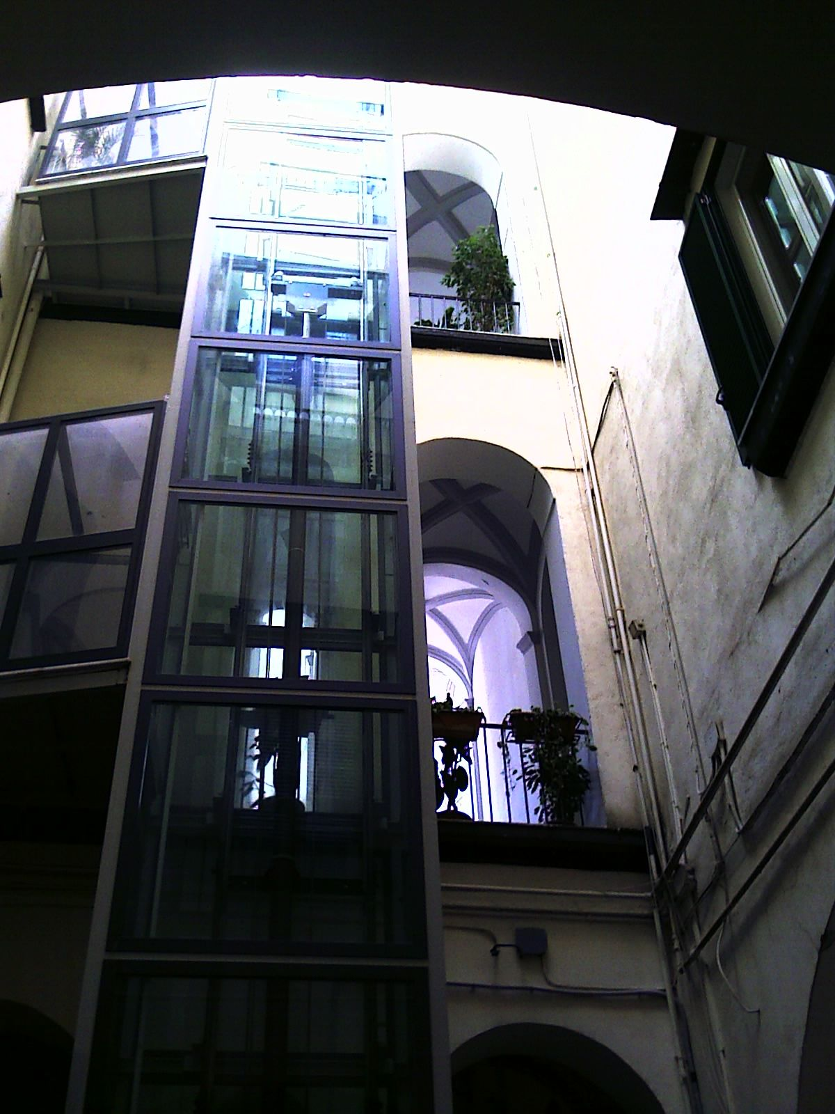 Staircase